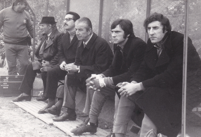 The bench of U.C. Sampdoria in Genoa on 14 february 1971